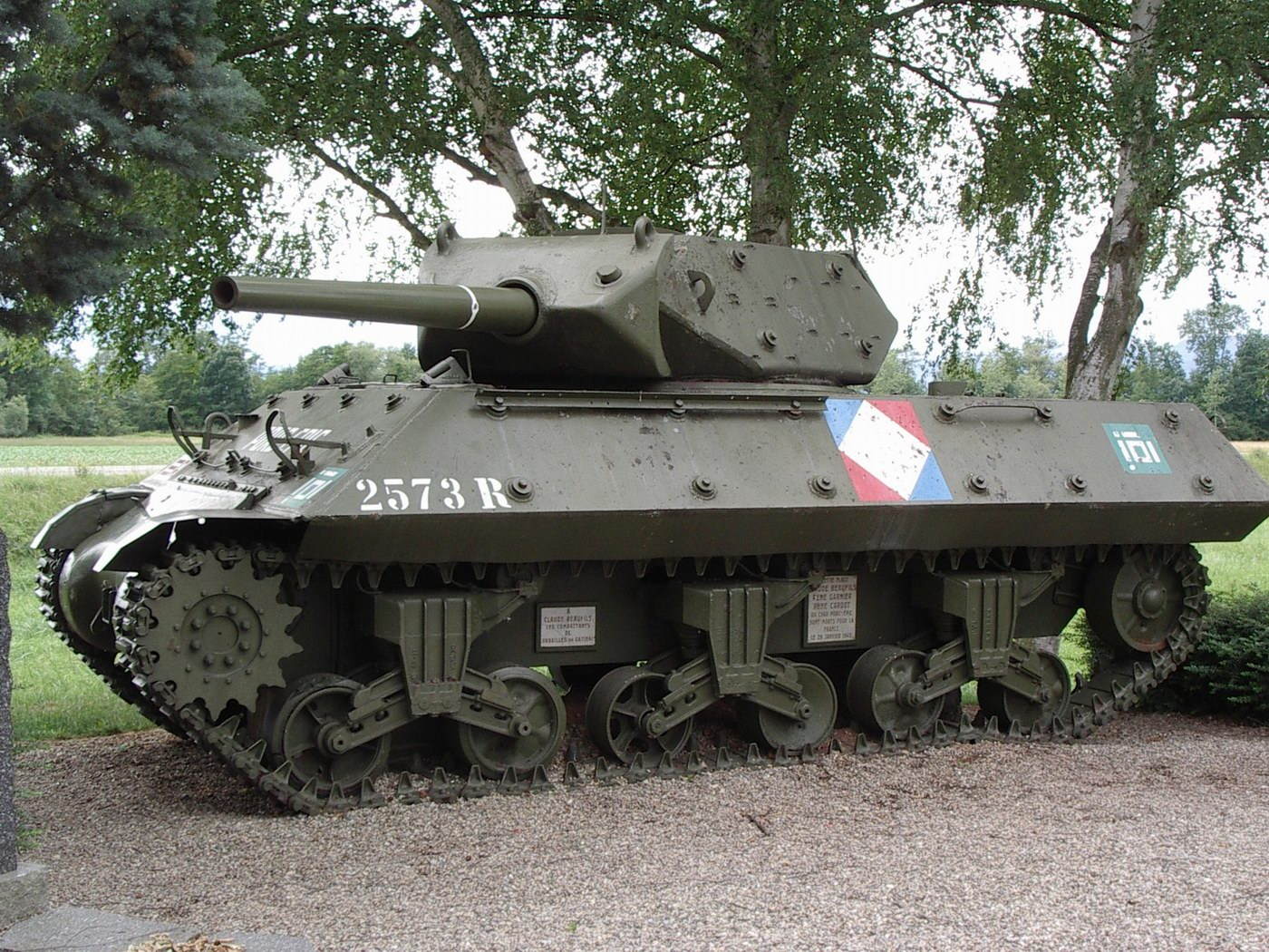 The M10 Wolverine "Porc-Épic" of the 8nd RCA (1st french army) which took part in the Colmar Pocket battle and always visible at the place even where it was destroyed near Illhaeusern (Alsace, France) on January 26th, 1945. Three members of its crew, whose Claude Beaufils, René Cardot and René Garnier, were killed during this action. This tank of 8° RCA - 3° Escadron - 2° Peloton was destroyed by fire from one of the 708 ° Jagdpanzer Volksgrenadier Division. The MDL Marc SAMIN (d. 1991), tank commander seriously wounded in both legs during the fight, clearly remembered the perfect circle of flame shot out of the Jagdpanzer. At the same time, he opened fire and destroyed the jadgpanzer. Returned to the scene a few years later, he found that, hampered by snow, the tanks were both understated the distance between them, and fired a little low.